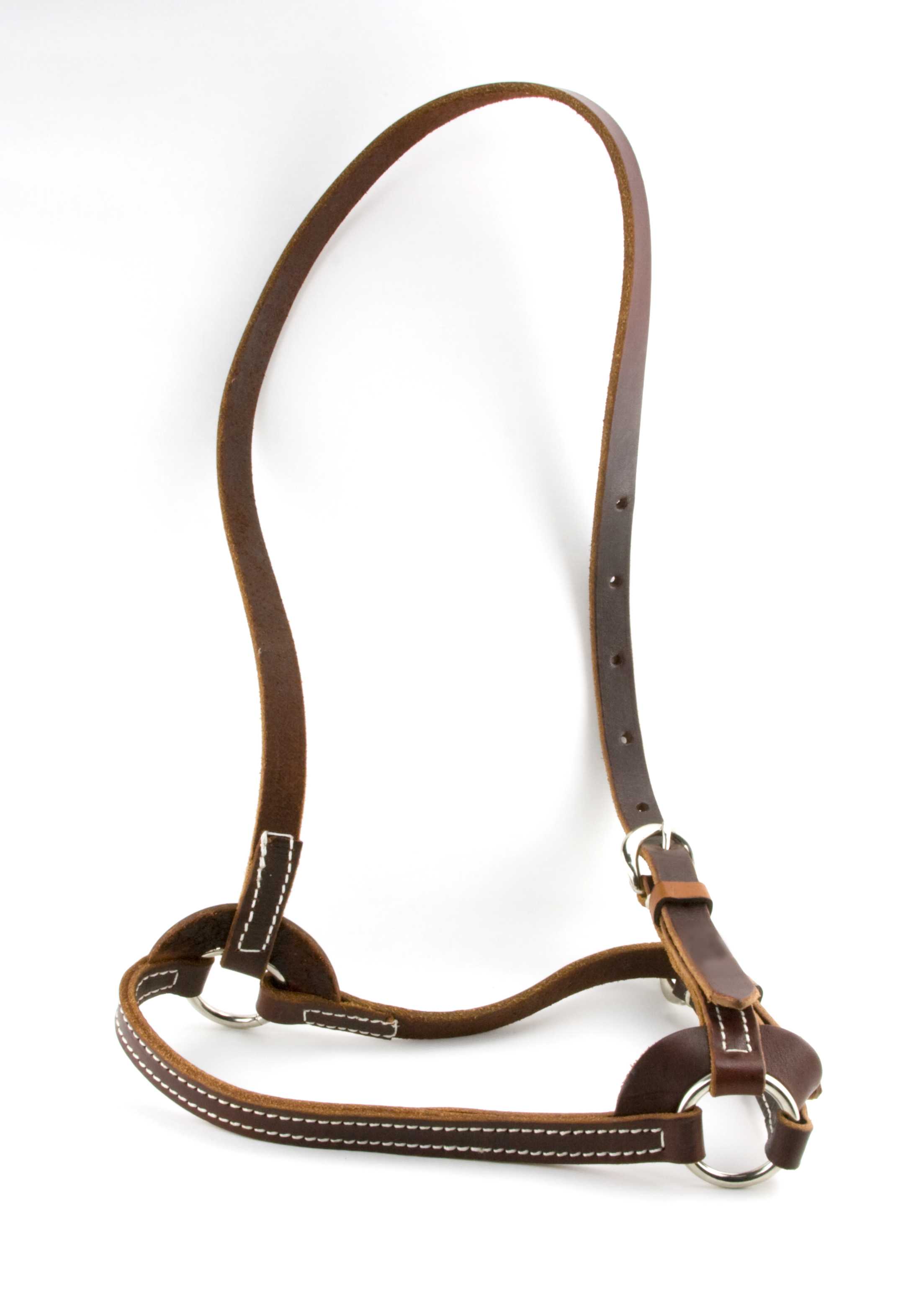 Brown leather noseband